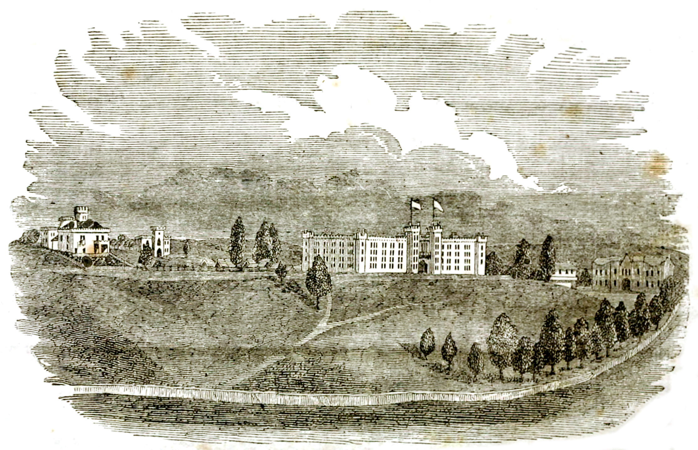 Wood engraving of the Virginia Military Institute from the 1863 Register of the Officers and Cadets of the Virginia Military Institute available at the Internet Archive